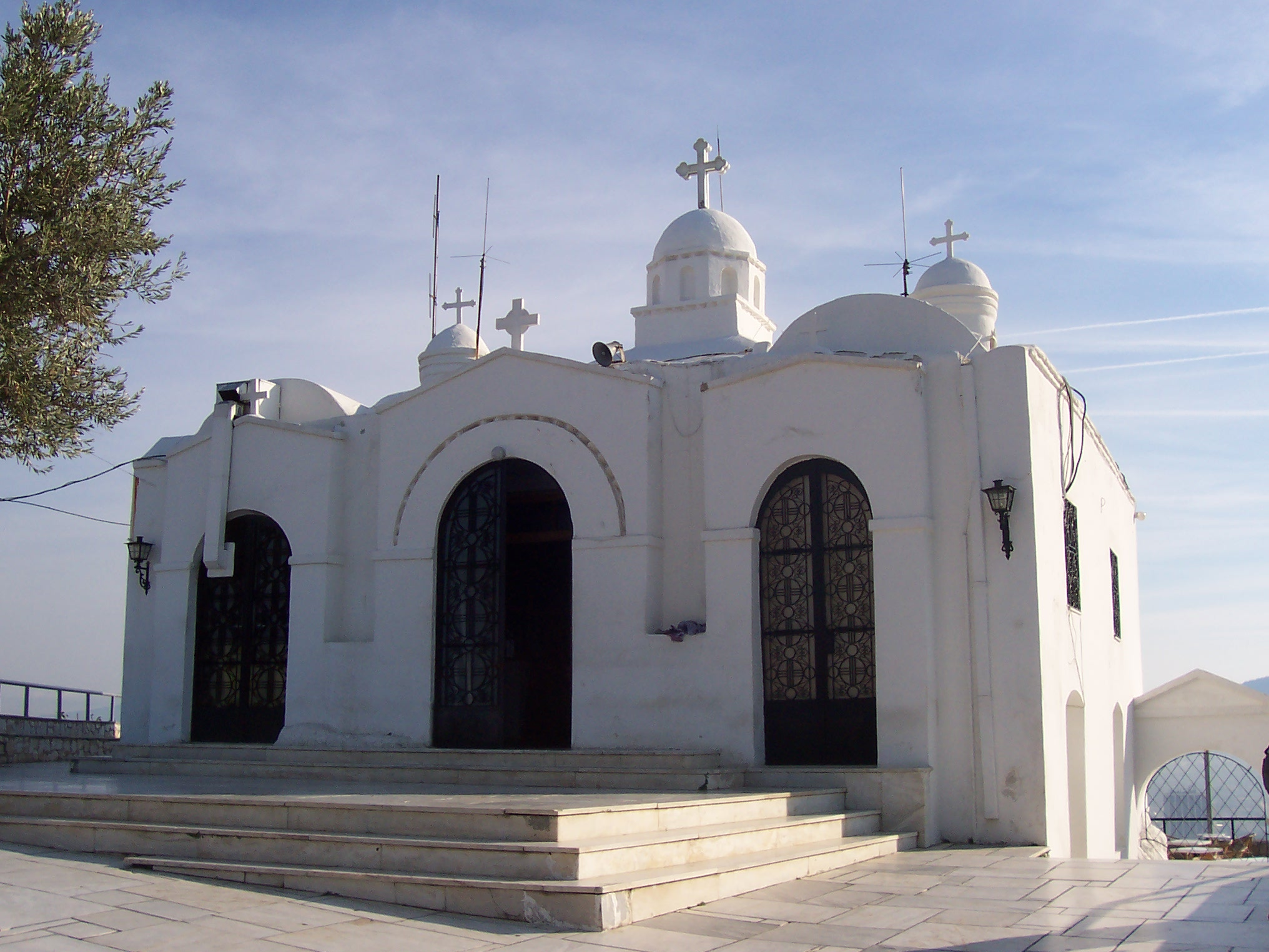 Small church on top of Lycabettus (Lykavitos) hill in Athens, Greece